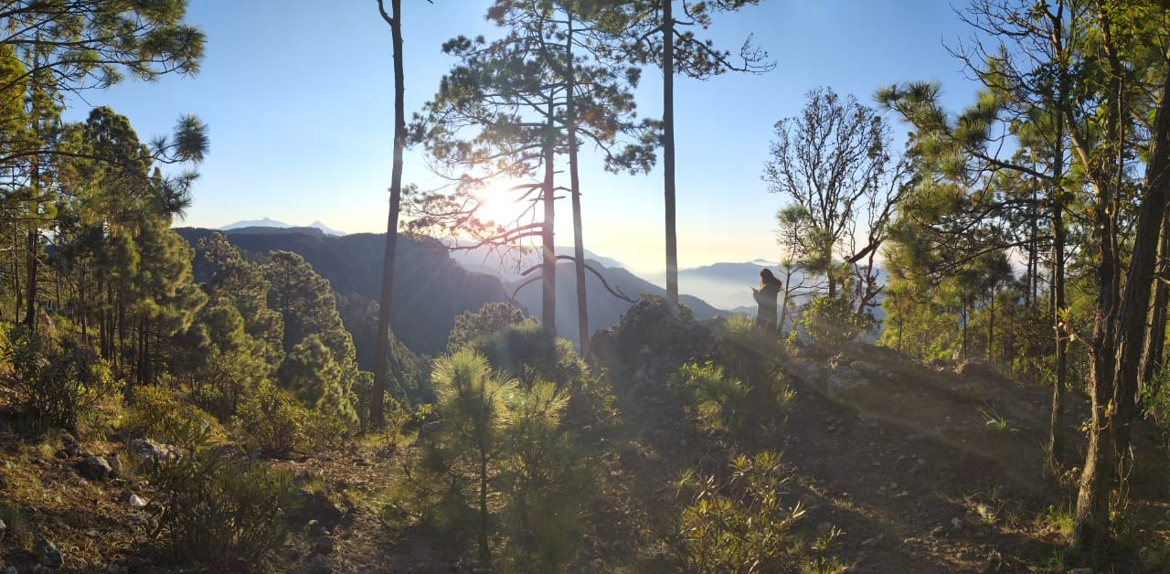 Parte alta de la Reserva de la Biósfera "Sierra de Manantlán", Jalisco. "Capillas"